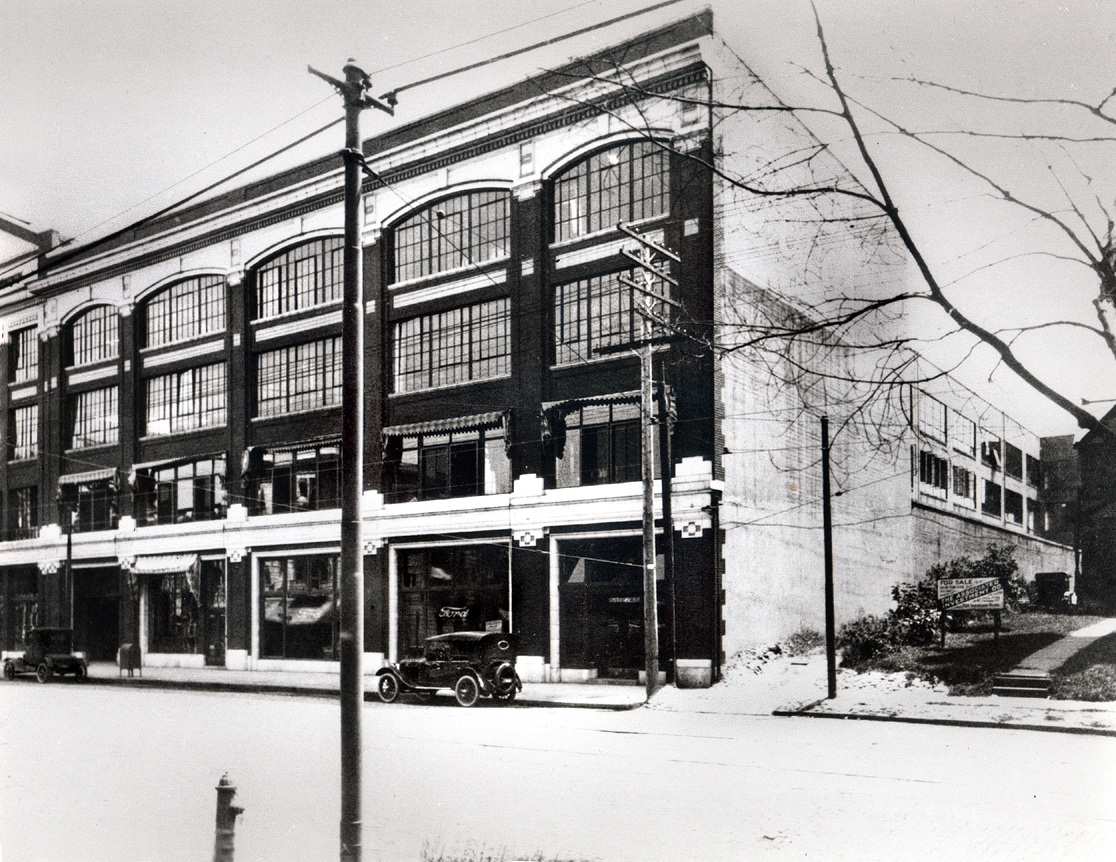 Ford Assembly plant, 1914, Cleveland Ohio (now Cleveland Institute of Art)